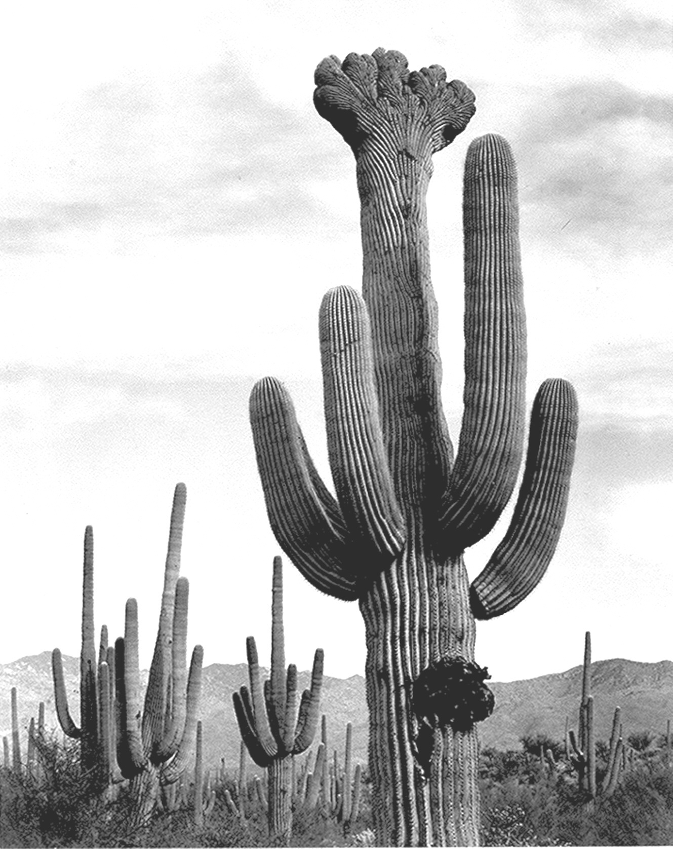 79-AAN-3 "Saguaros, Saguaro National Monument," vertical full view of cactus with others surrounding. Saguaro National Park 1941, Ansel Adams -May need an ultra high resolution scan to do justice to this print -Mak 05:39, 4 April 2006 (UTC)